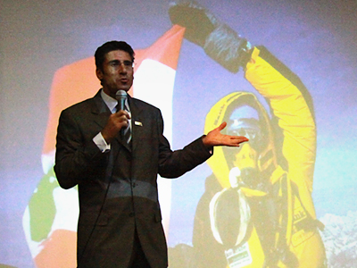 Maxime Chaya tells audience: 'There is an Everest for everyone'